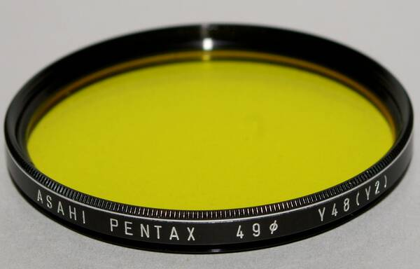 Asahi Pentax Y filter for cameras with 49mm filter mount lens